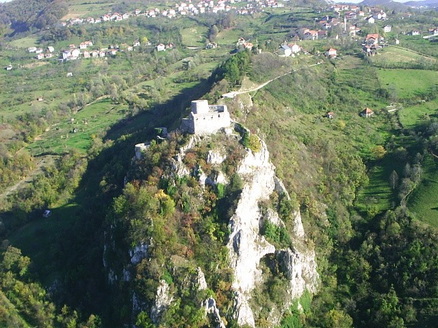 The castle of Srebrenik seen from a helicopter